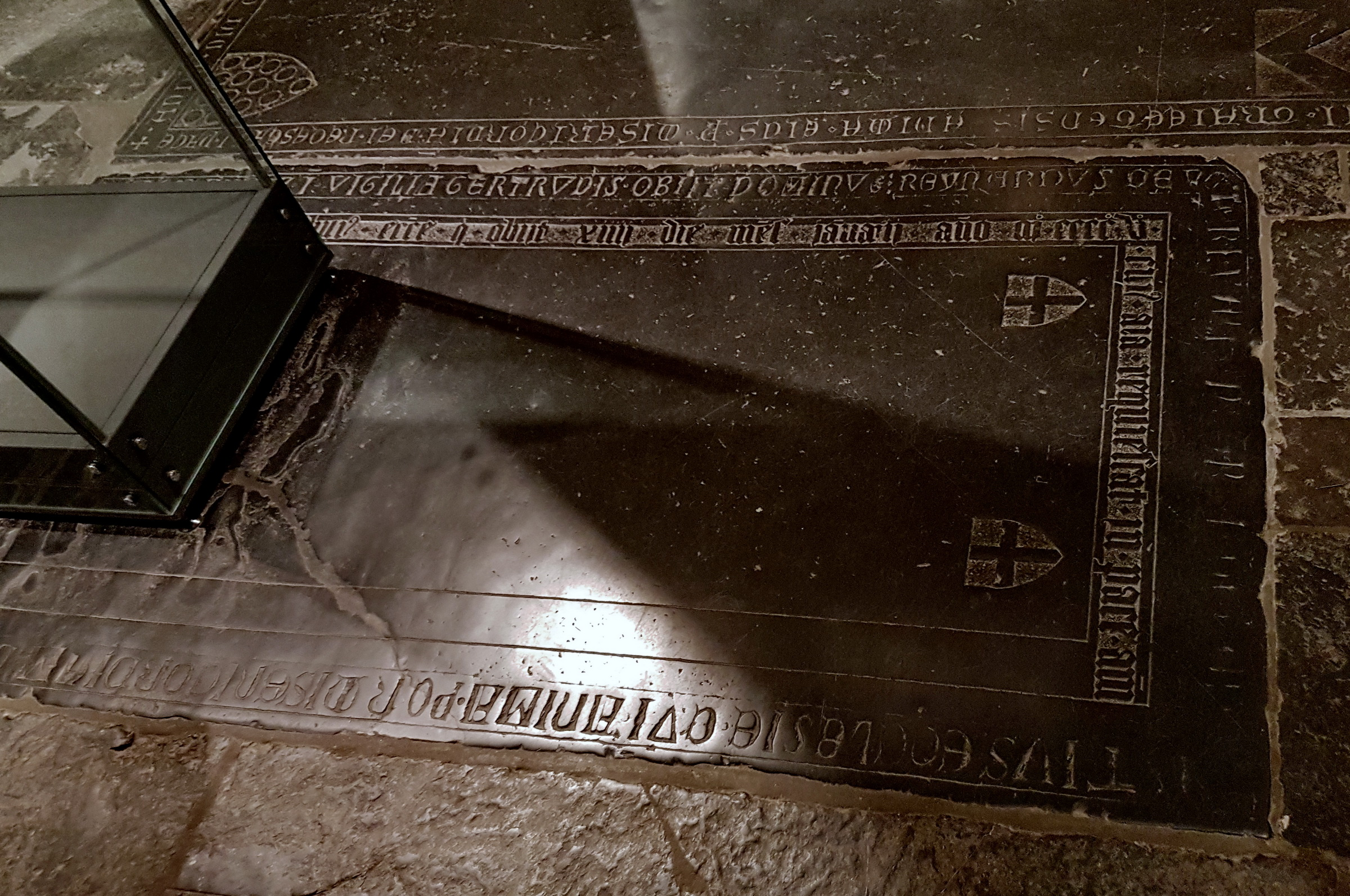 Ledger stone on the lower floor of the so-called Double Chapel in the Basilica of Saint Servatius in Maastricht, the Netherlands. This grave and its cover have been used twice: first for chapter deacon Reynier of Oud-Valckenborgh († 17 March 1296); then for provost Hendrik of Bylandt († 14 January 1405)